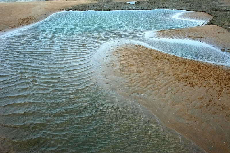 ripples